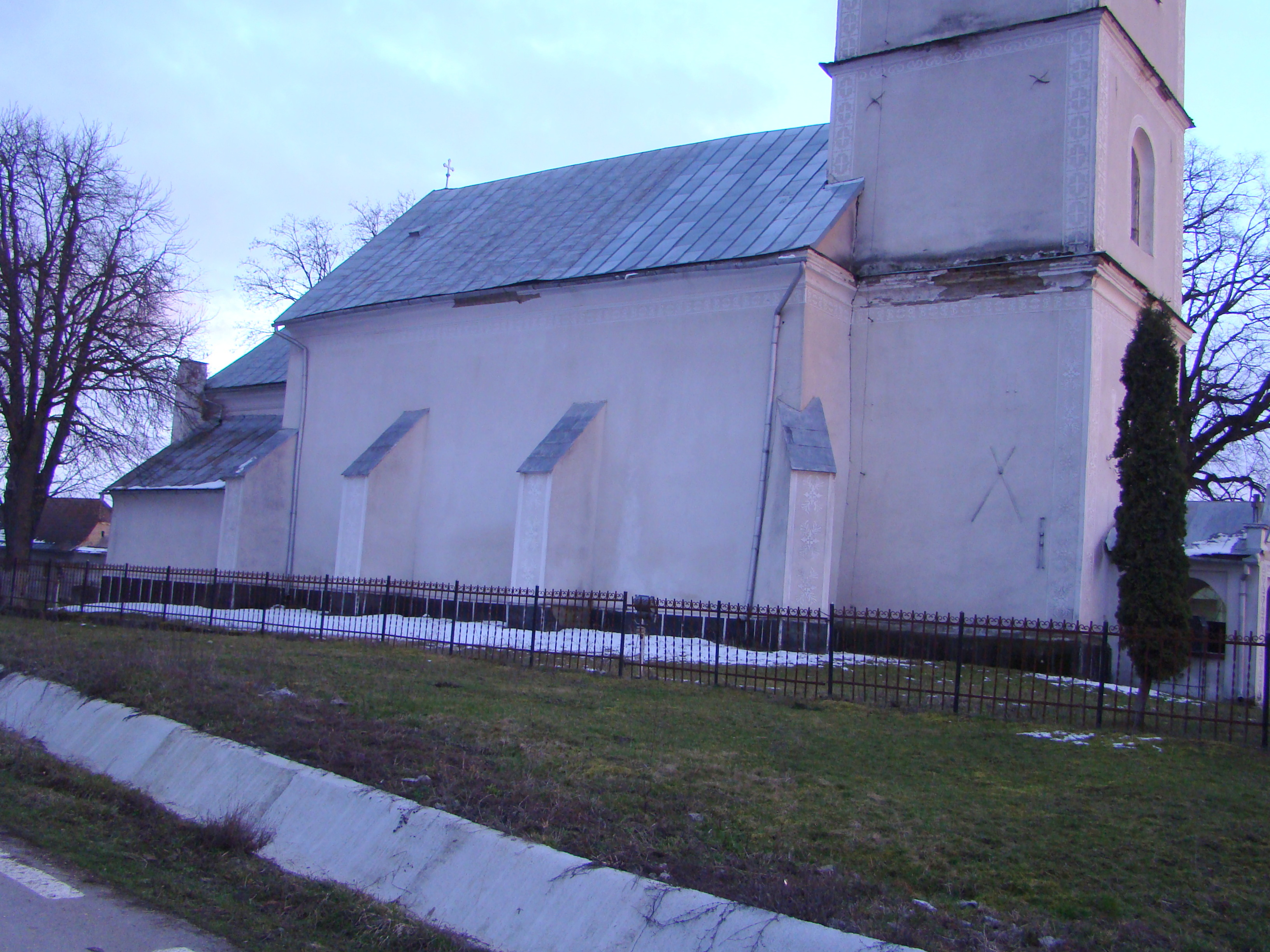 Church of the Dormition in Budacu de Jos, Bistrița-Năsăud county, Romania